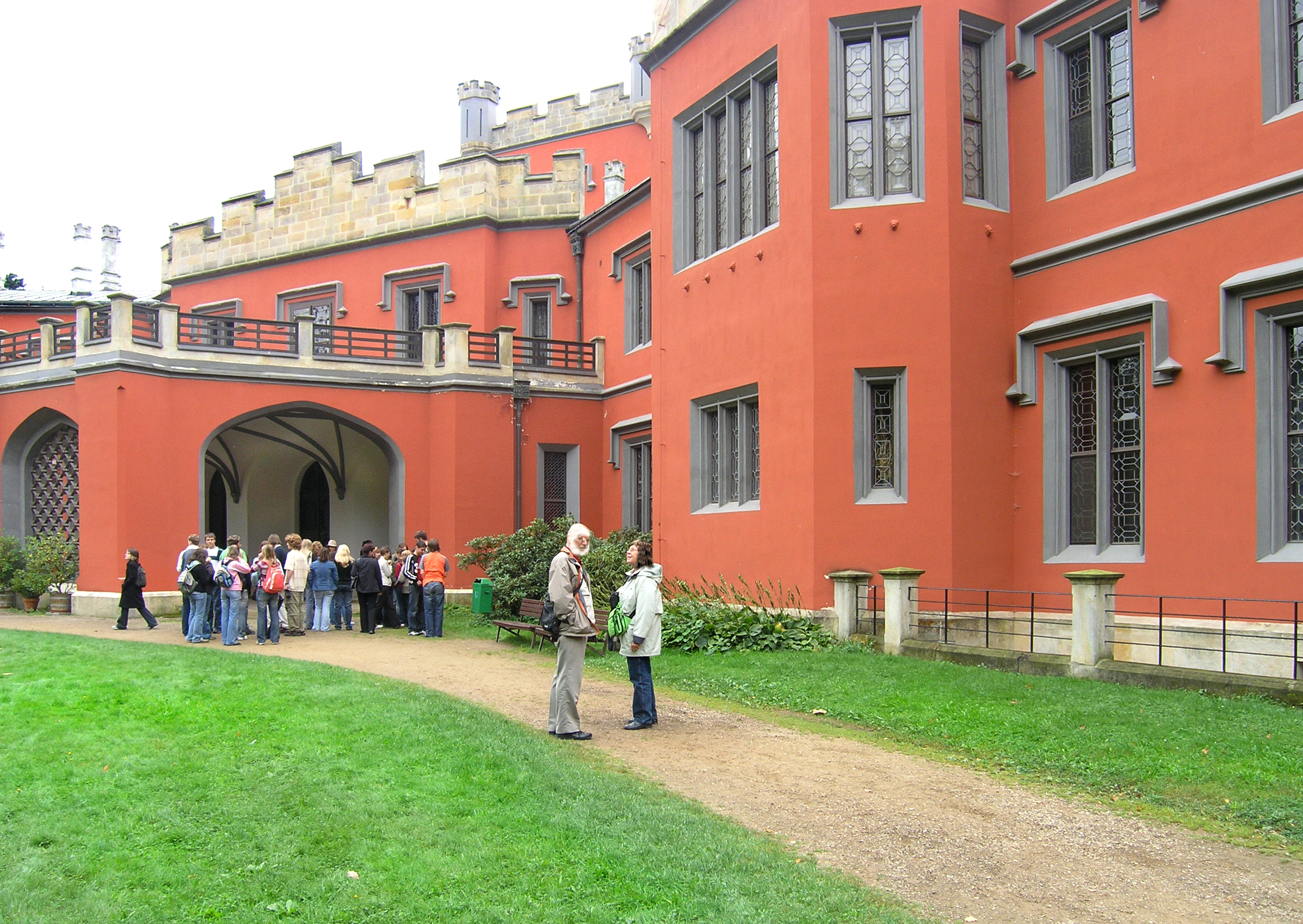 Castle Hrádek u Nechanic, Hradec Králové Region